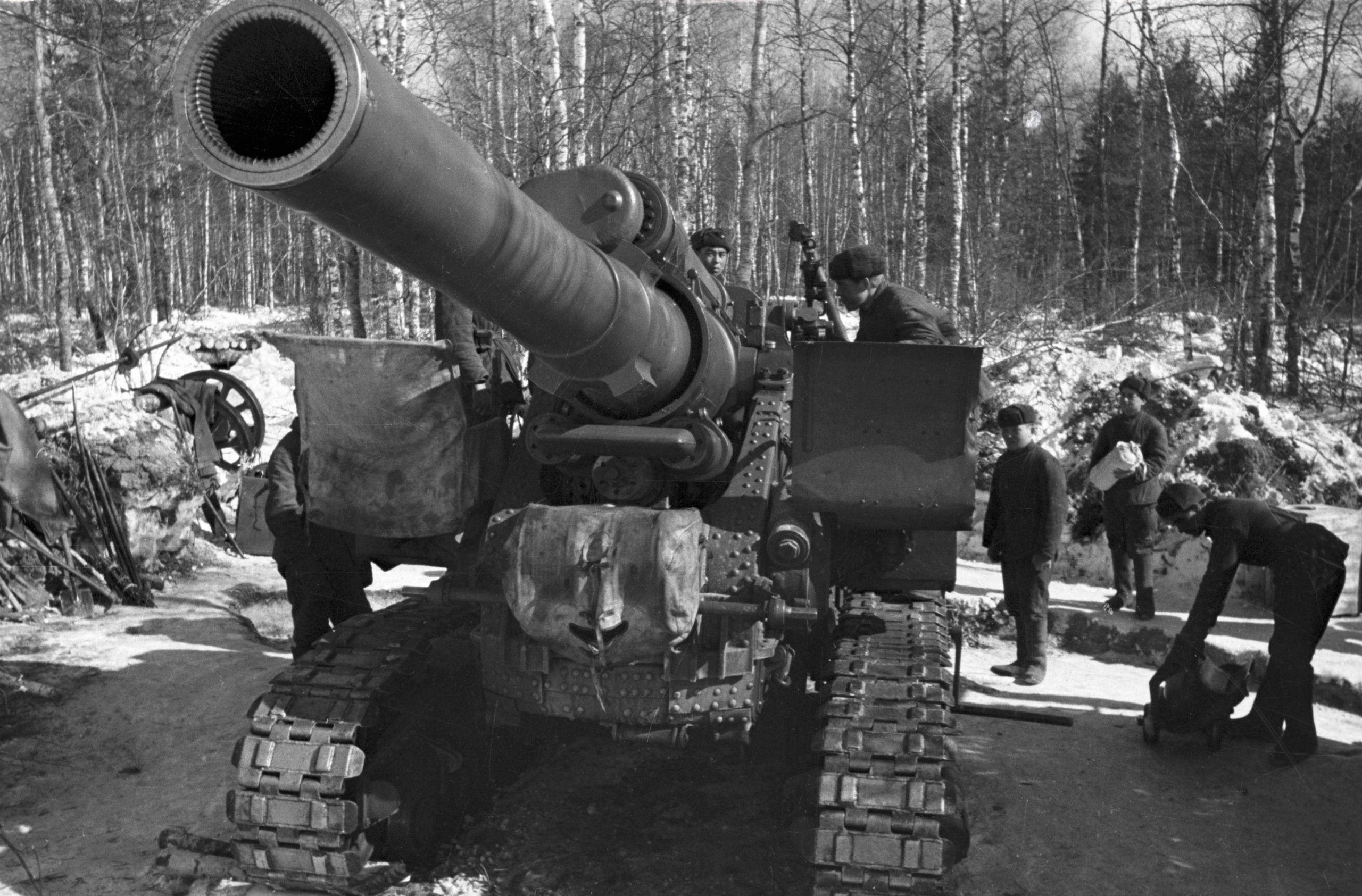 “Red Army soldiers firing at the enemy”. Red Army soldiers firing at the enemy near Moscow.